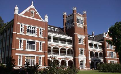 Aquinas College Perth's Foundation Stone